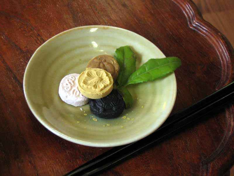 Dasik, a Korean snack for tea